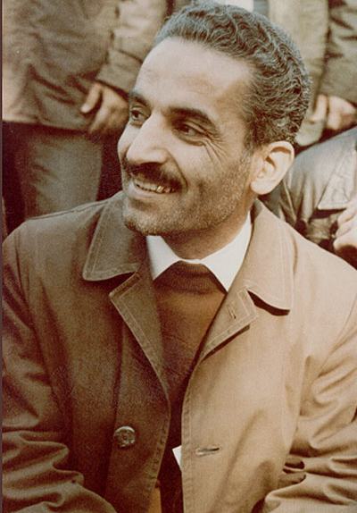 Mohammad-Ali Rajai